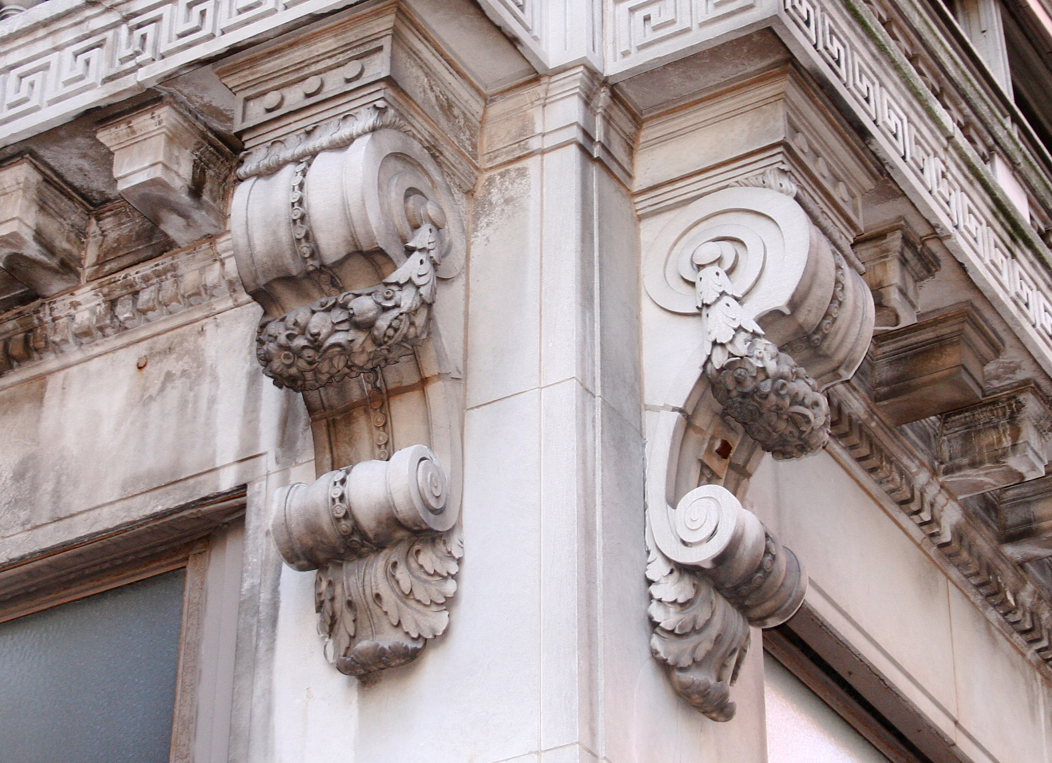 Stone corbels on a building in Indianapolis, Indiana.